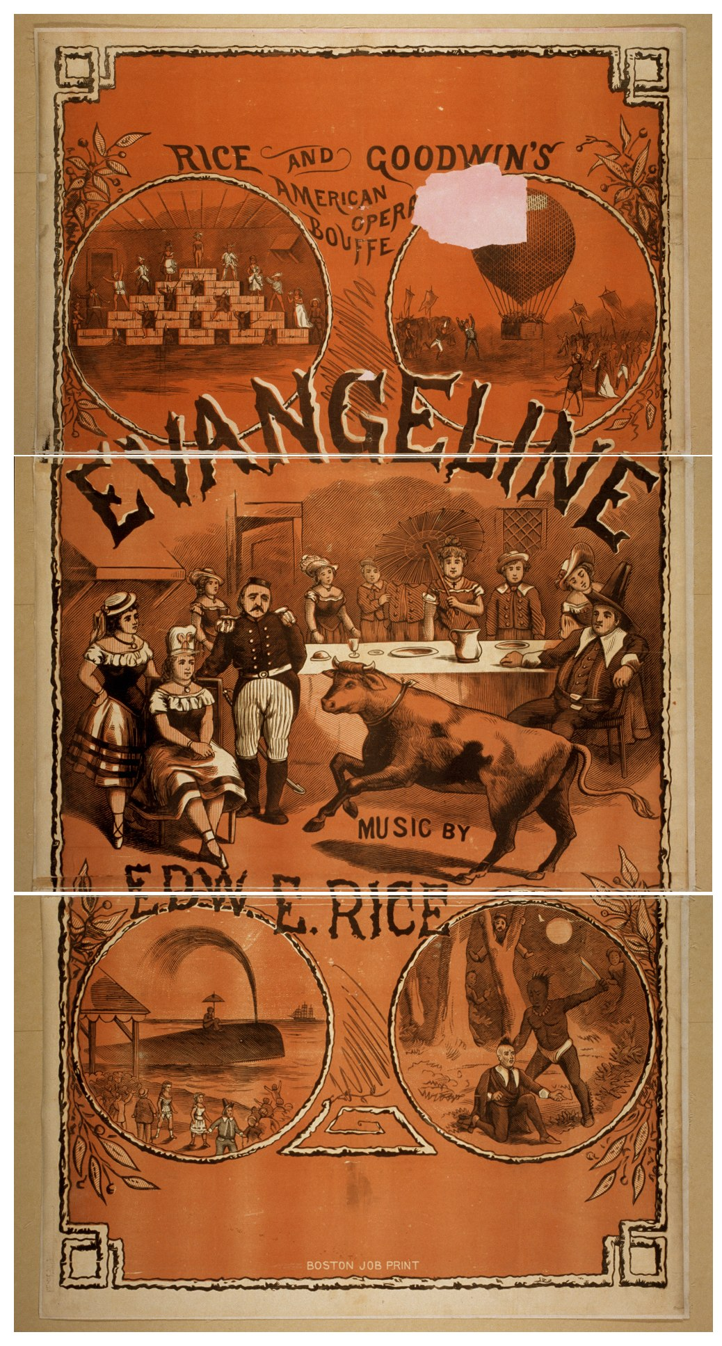 Title: Evangeline Rice and Goodwin's American opera bouffe. Abstract/medium: 1 print : color woodcut ; sheet 210 x 108 cm. (poster format)